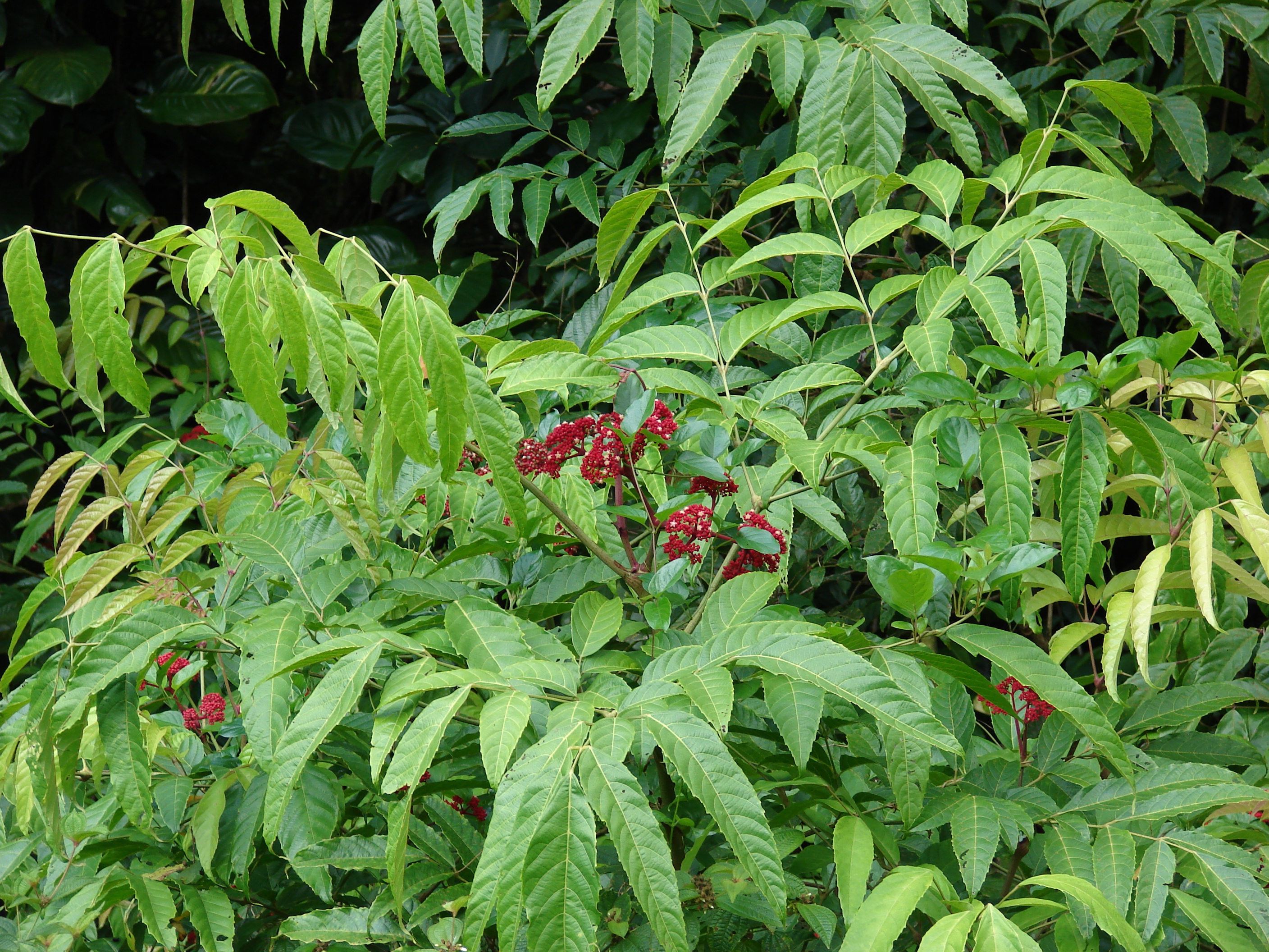 Leea philippinensis (leaves and flowers). Location: Oahu, Hoomaluhia Botanical Garden